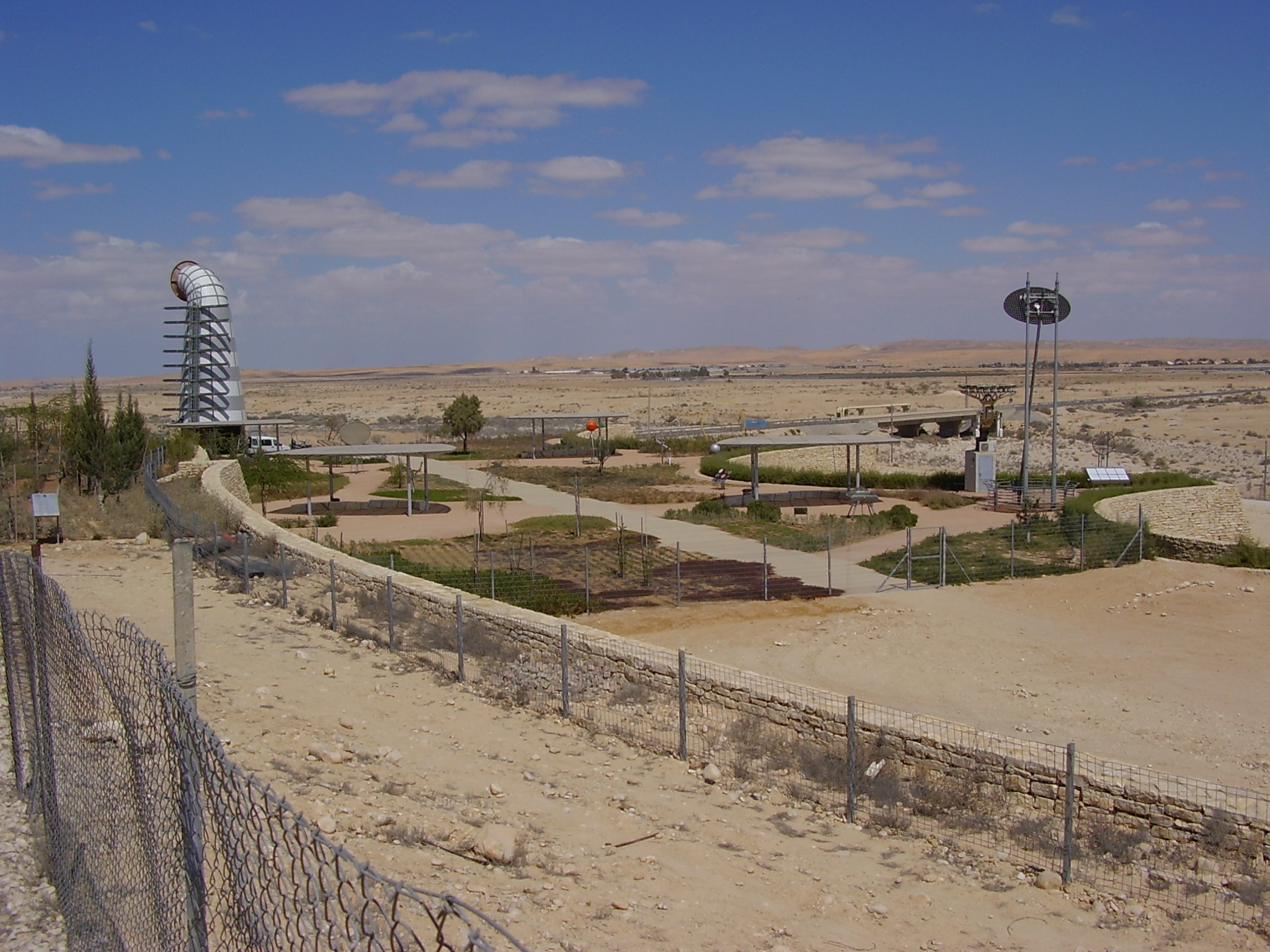 ecological park in nitzana